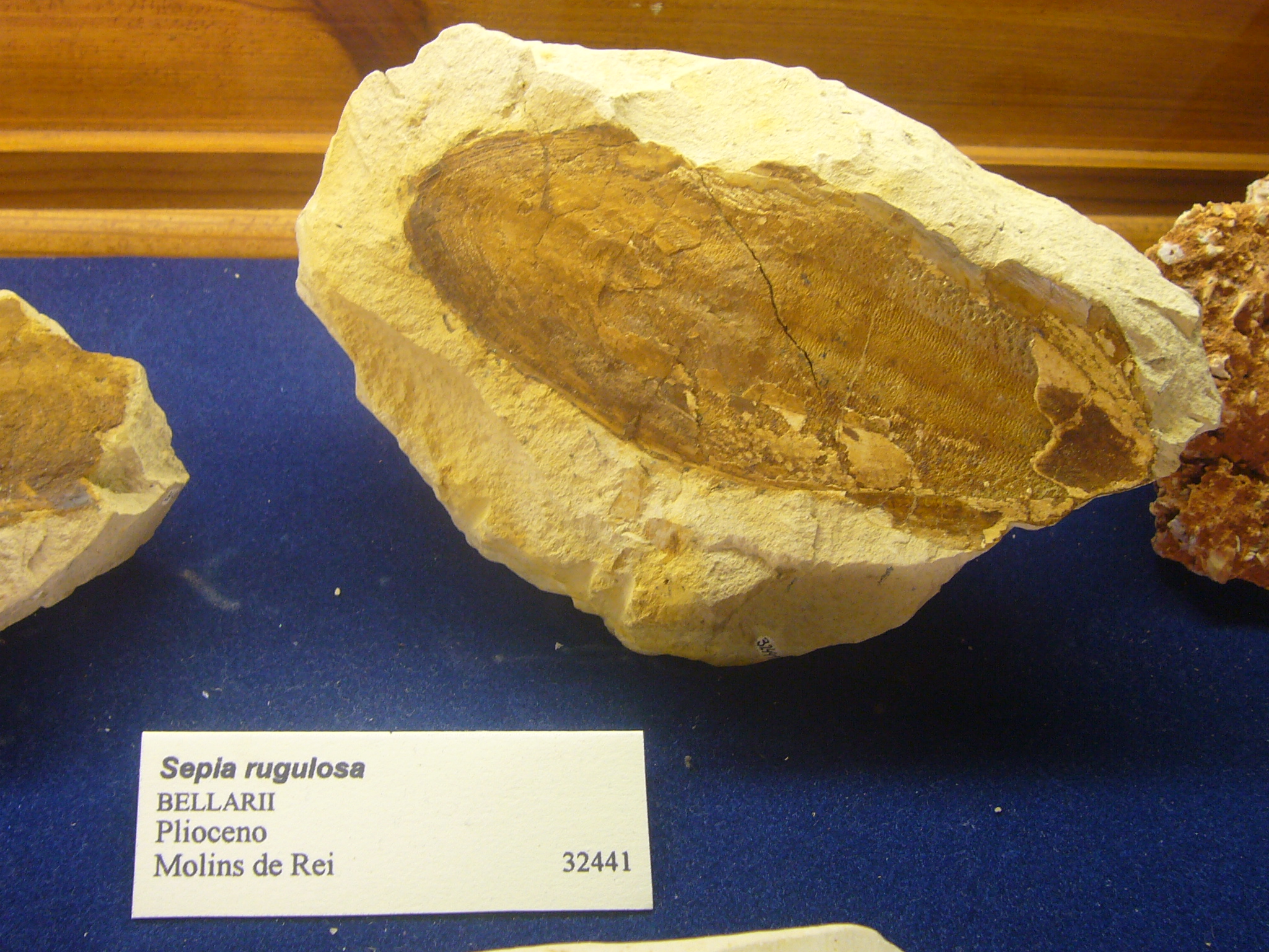 Sepia rugulosa, from Molins de Rei. Fossils. Collection of paleontology of the Geological Museum of the Barcelona Seminari (Museu Geològic del Seminari de Barcelona).